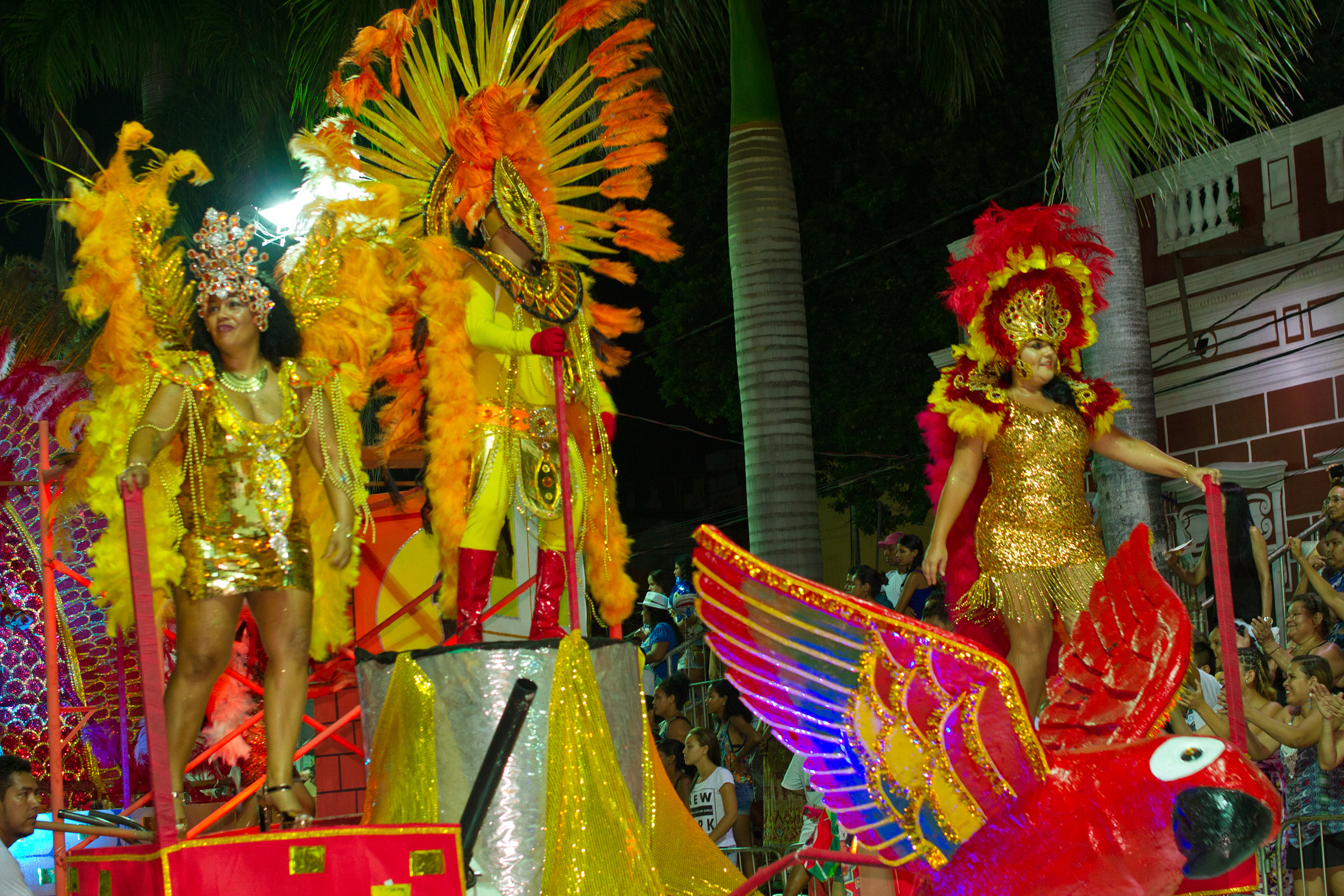 Carnaval float for Samba School "Mocidade Independente da Nova Corumbá" on the second night of Carnaval celebrations in Corumbá, Mato Grosso do Sul, Brazil.